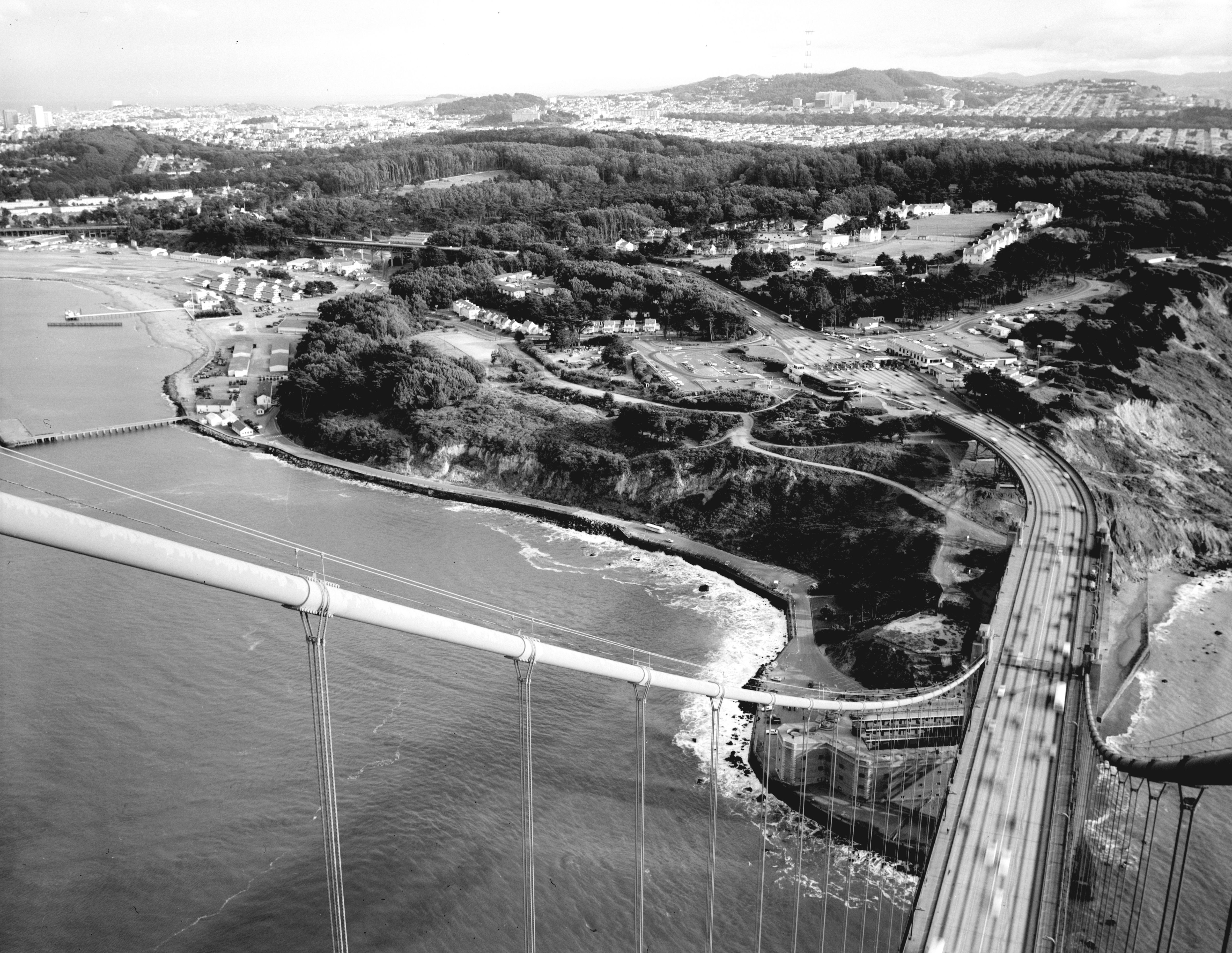 GENERAL VIEW FROM TOP OF SOUTHERN TOWER, LOOKING SOUTH — to Fort Point and the Presidio of San Francisco. HAER—Historic American Engineering Record images of the Golden Gate Bridge.